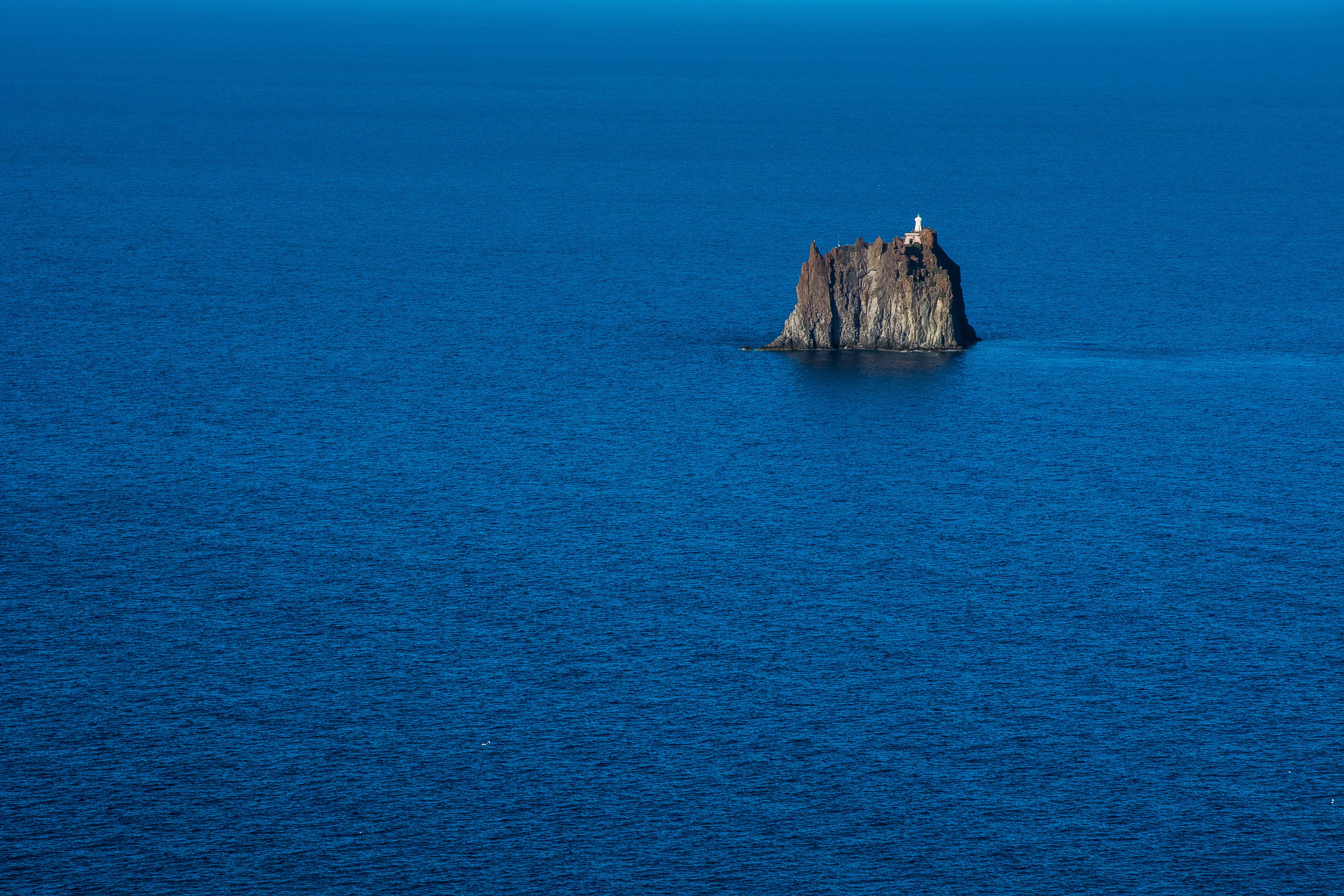 This picture was taken while hiking up volcano Stromboli. It shows Strombolicchio, a small sea stack that's located right next to Stromboli.